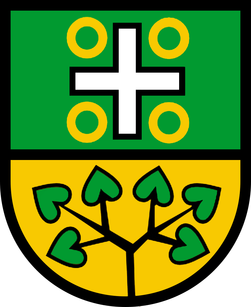 Coat of arms of the German municipality of Groß Wokern.